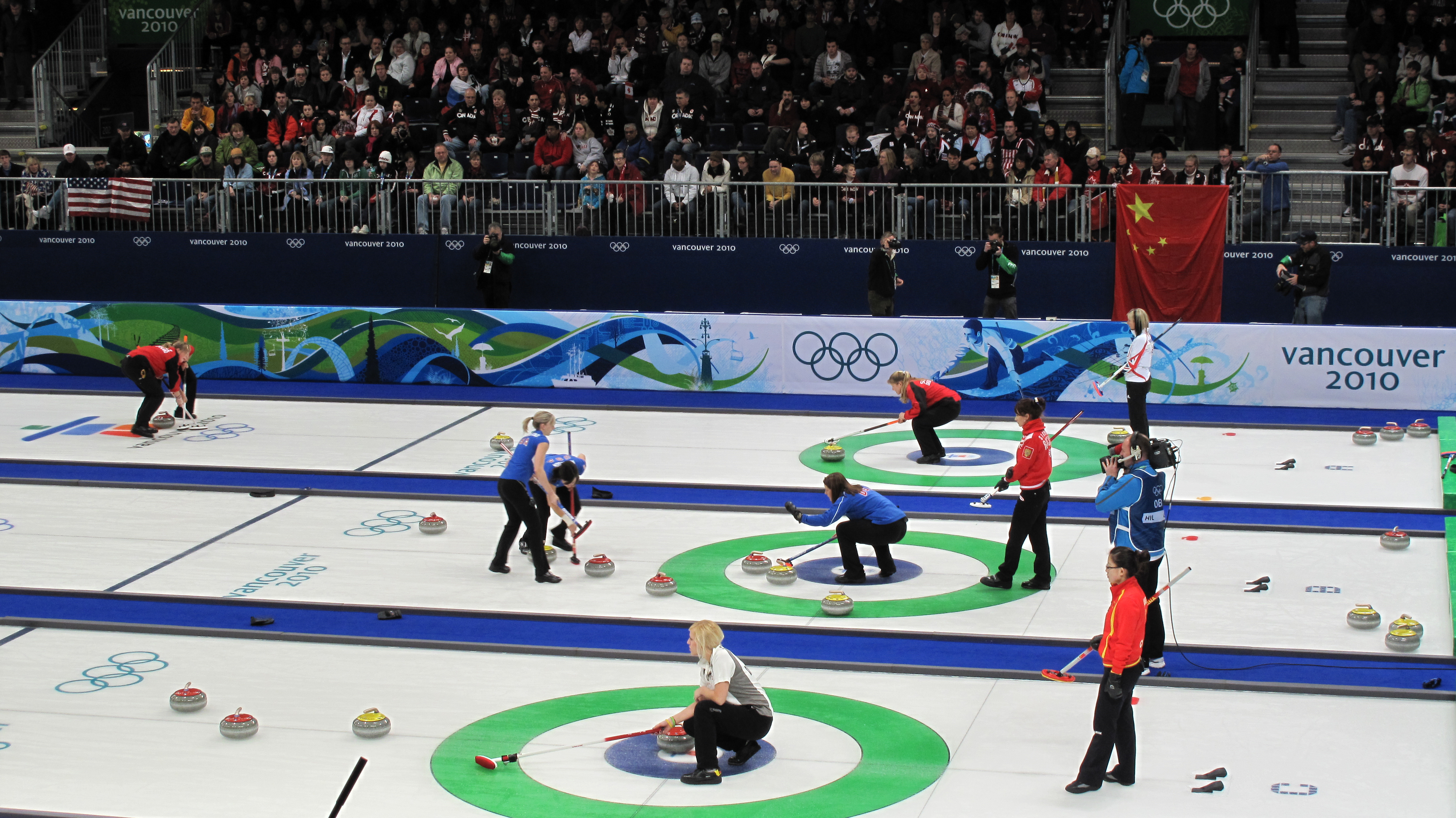 Women's draw 5, Curling at the 2010 Winter Olympics – Women's tournament